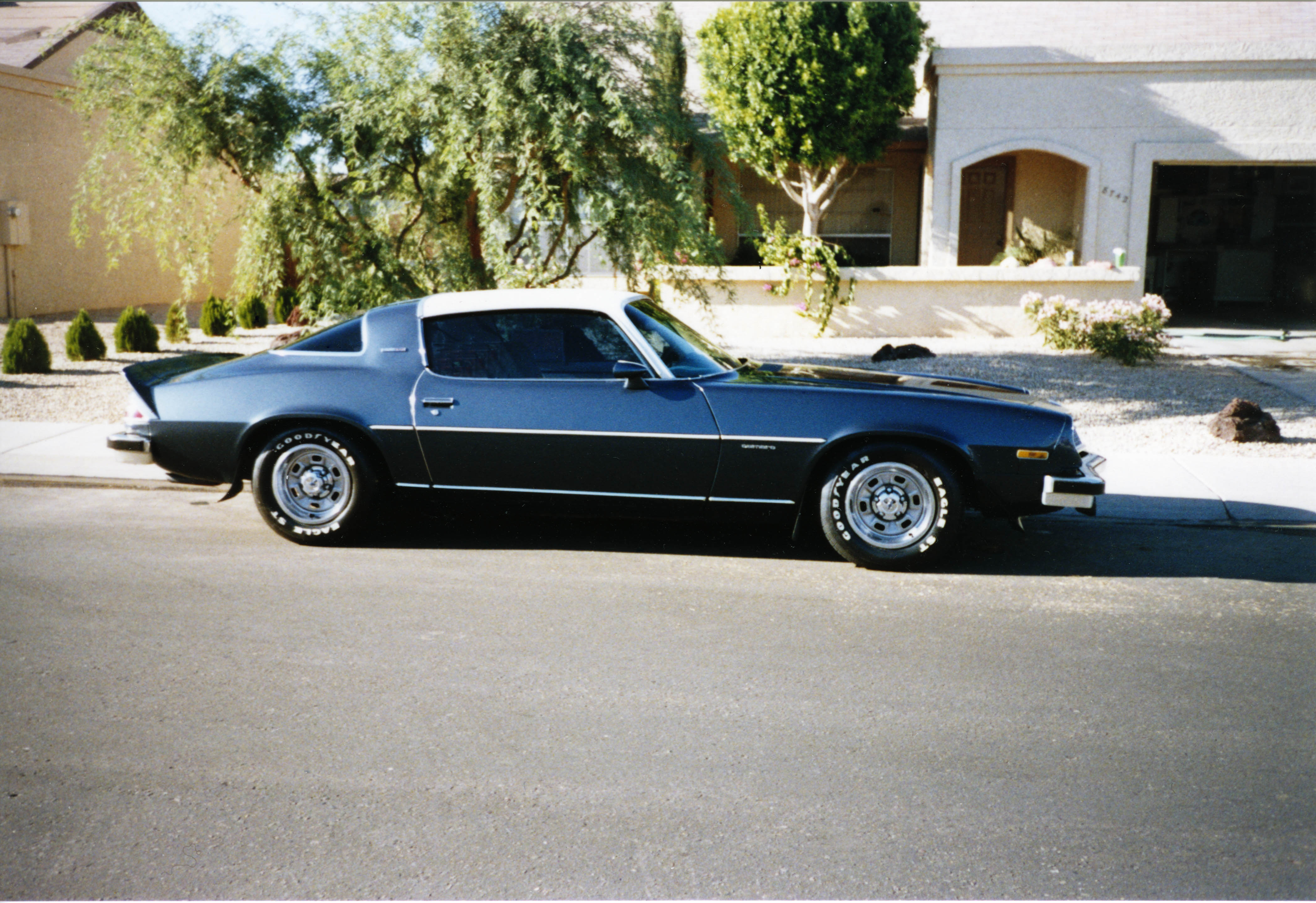 1977 Chevrolet Camaro Type LT. Blue with white interior, body side molding and vinyl roof.